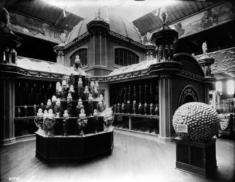 Display of Southern California fruits at the Alaska-Yukon-Pacific Exposition, 1909. The Limoneira exhibit, from the citrus ranch of that name in Santa Paula, Ventura County, appears on the right.